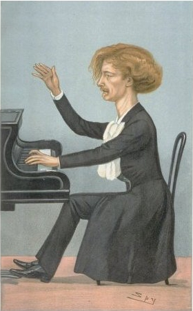 Caricature of IJ Paderewski. Caption read "easy execution".